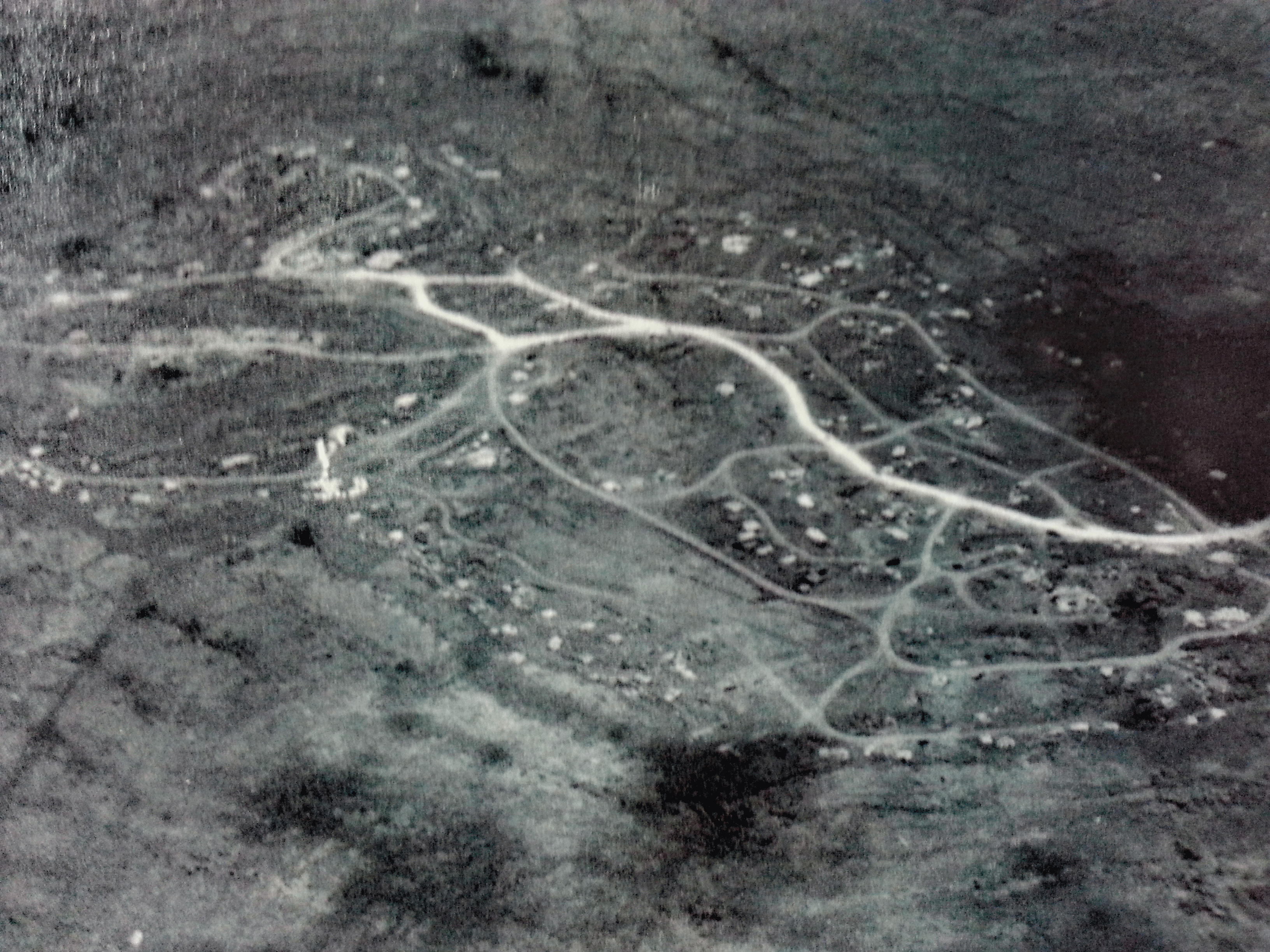 An aerial photograph of the base at Con Thien along the DMZ. Source: I Corps Vietnam: An Aerial Retrospective by COL Thomas Pike